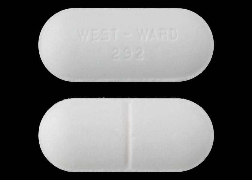 Drug Name: Methocarbamol 750 MG Oral Tablet Ingredient(s): Methocarbamol Drug Label Imprint: West ward 292 Color(s): White Shape: Oval *Size (mm): 27.00 Score: 2 Inactive Ingredient(s): ShowHide methylcellulose (100 cps) / lactose monohydrate / ... methylcellulose (100 cps) / lactose monohydrate / starch, corn / colloidal silicon dioxide / magnesium stearate Drug Label Author: West-ward Pharmaceutical Corp DEA Schedule: Non-scheduled